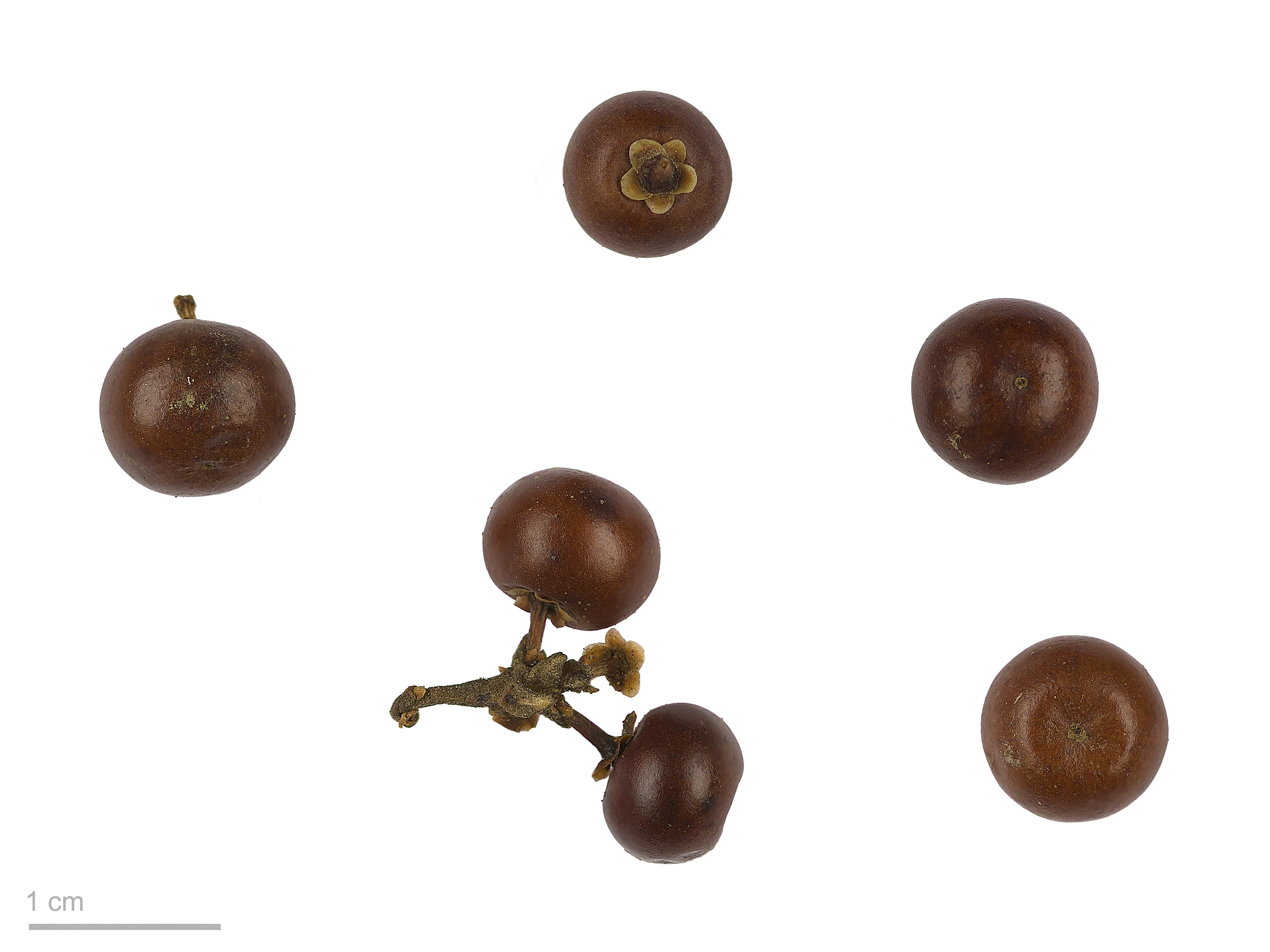 kinnikinnick, fruits and seeds